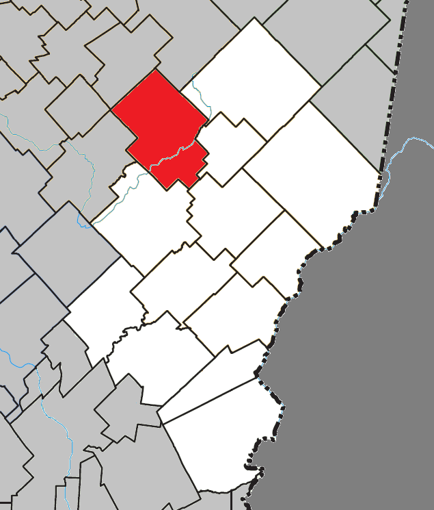 Location of Saint-Luc-de-Bellechasse, Quebec within Les Etchemins Regional County Municipality.